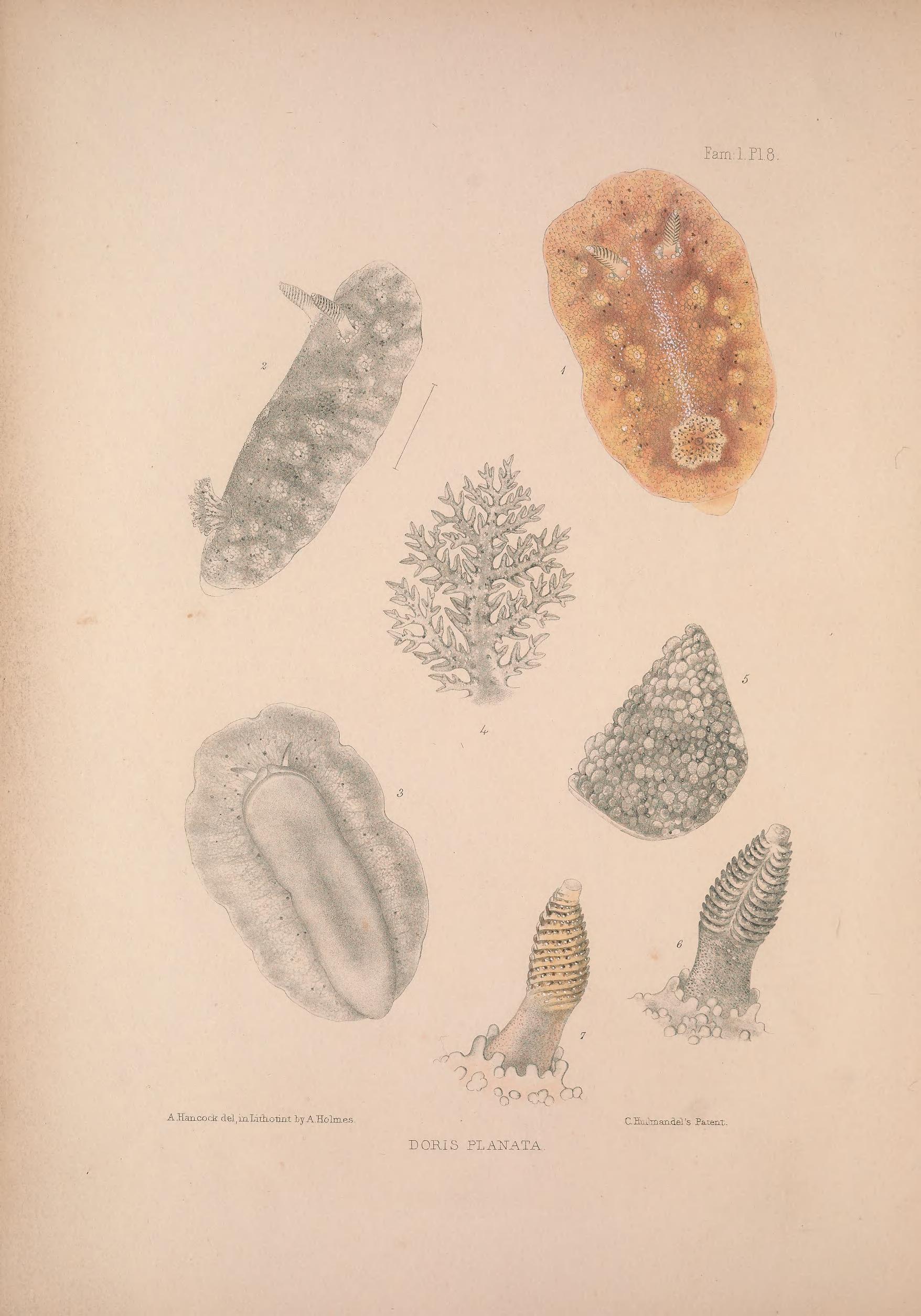 Alder J. & Hancock A. (1845-1855). A monograph of the British nudibranchiate Mollusca: with figures of all the species. The Ray Society, London. Published in 8 parts: Part 3 Fam. 1 Plate 8 [1847]. Doris planata (Alder & Hancock, 1846) synonym Geitodoris planata (Alder & Hancock, 1846) accepted name